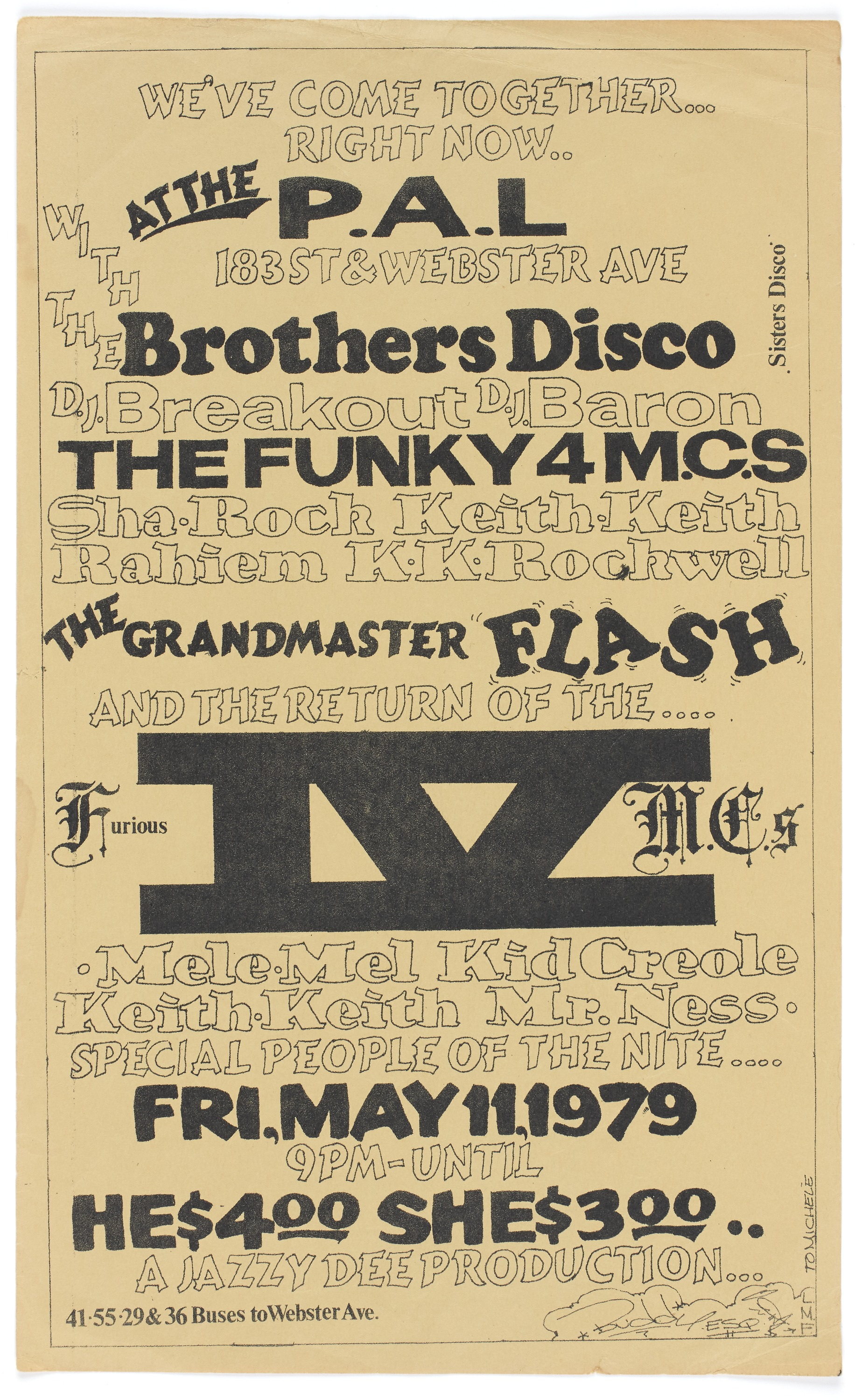 A flier advertising a rap battle at the P.A.L at 183 Street and Webster Avenue in the Bronx, New York City, on May 11, 1979, designed by Buddy Esquire (Lenoin Thompson III). The flier is a vertical sheet of paper fully covered with letterblock text inside a think black border: [WE'VE COME TOGETHER... / RIGHT NOW... / AT THE [underlined] / P.A.L / 182 ST & WEBSTER AVE / WITH / THE Brothers Disco .Sisters Disco. [sideways] / D.J. BREAKOUT D.J. BARON / THE FUNKY 4 M.C.S / Sha.Rock Keith.Keith / Rahiem K.K. Rockwell / THE GRANDMASTER FLASH / AND THE RETURN OF THE... / FURIOUS IV [large font] M.C.s / .Mele.Mel Kid Creole / Keith.Keith Mr. Ness. / SPECIAL PEOPLE OF THE NITE.... / FRI, MAY 11, 1979/ 9 PM - UNTIL / HE $4.00 SHE $3.00 .. / A JAZZY DEE PRODUCTION... / 41.55.29 & 36 Buses to Webster Ave. / Buddy ESQ [illegible] L.M.F. [sideways] TO MICHELE ] The verso of the flier is blank.